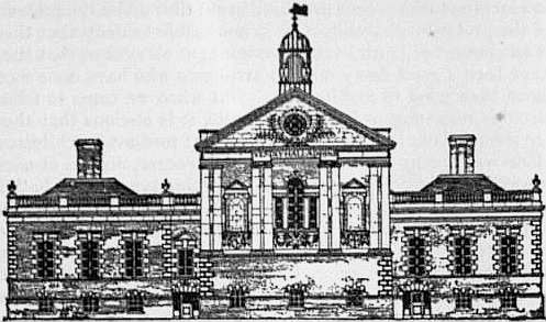 Chelsea Town Hall. (J. M. Brydon).Illustration from 1911 Encyclopædia Britannica, article Architecture.